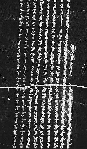 Filmstrip of one of the three Monkeyshines films produced by Thomas Edison's laboratory in 1889–90 for the early cylinder version of the Kinetoscope